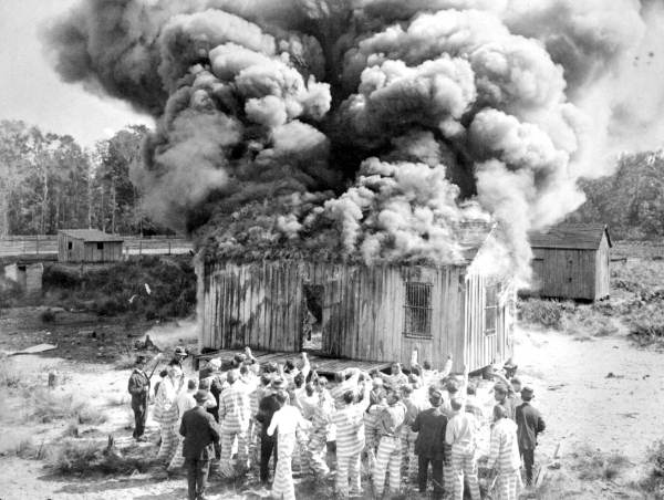 Motion picture scene from Gaumont Studios in Jacksonville, Florida, United States.